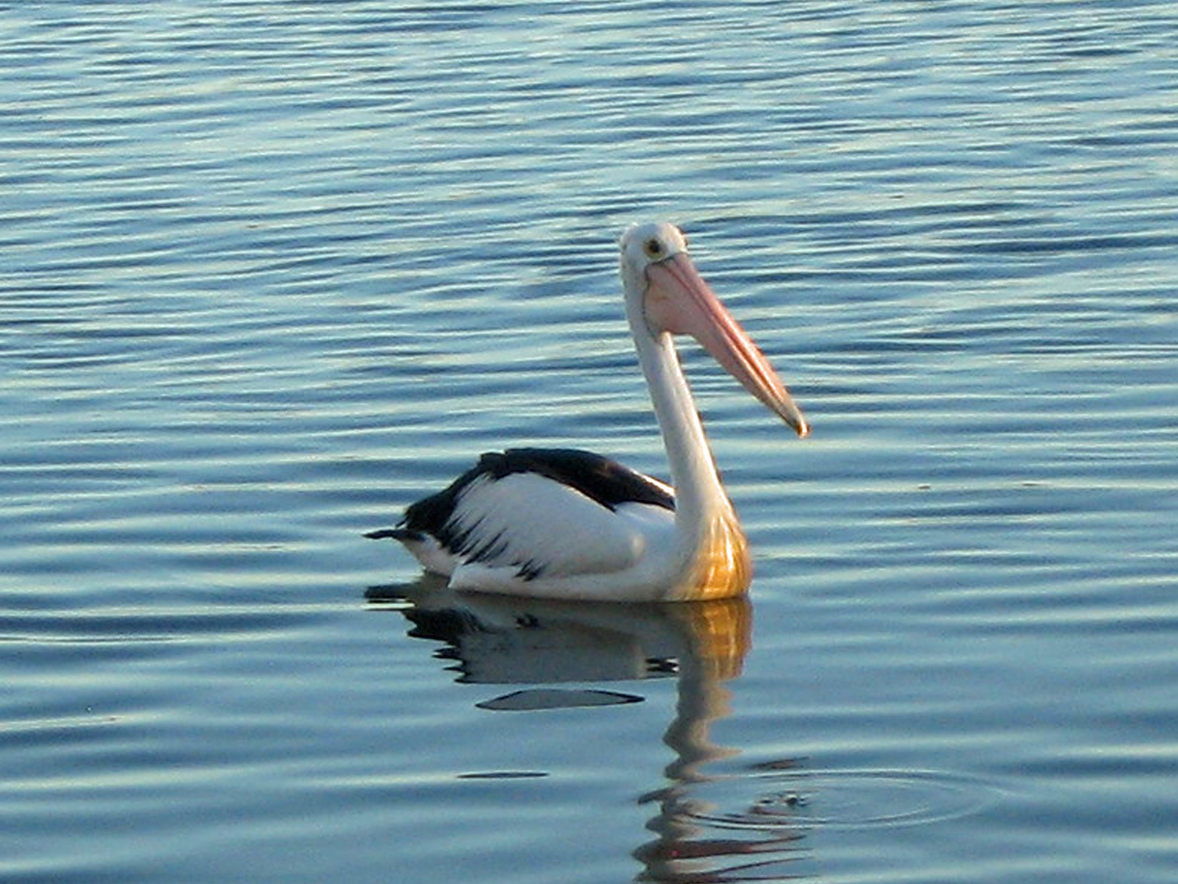 Australian Pelican